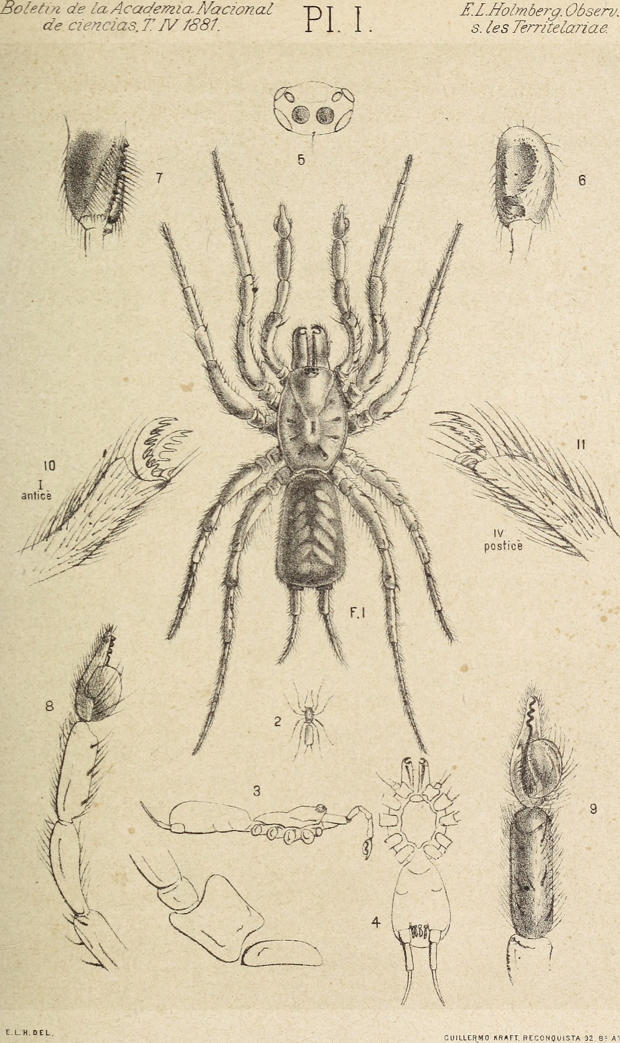 Title: Boletin de la Academia Nacional de Ciencias en Córdoba Year: [1] (s) Authors: Academia Nacional de Ciencias (C©đrdoba, Argentina) Subjects: Publisher: Text Appearing Before Image: ' Text Appearing After Image: MECICOBOTHRIUM THORELLI1. HOLMBERG.